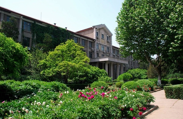 Xian Jiaotong University No.1 education building